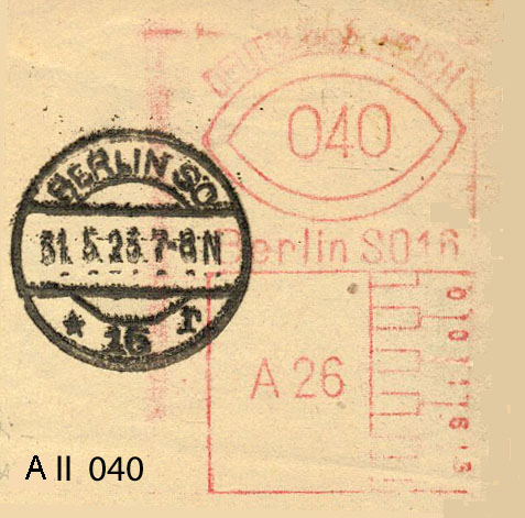 Meter stamp catalog image, Germany type A1 version AII